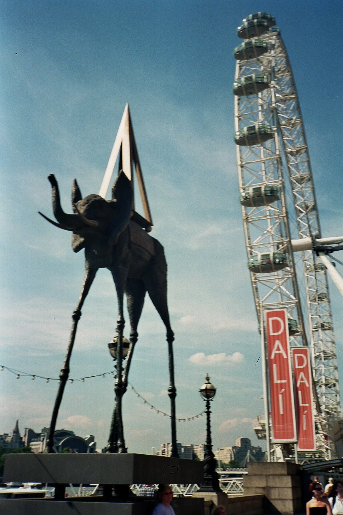 London Eye & Dali Exhibition